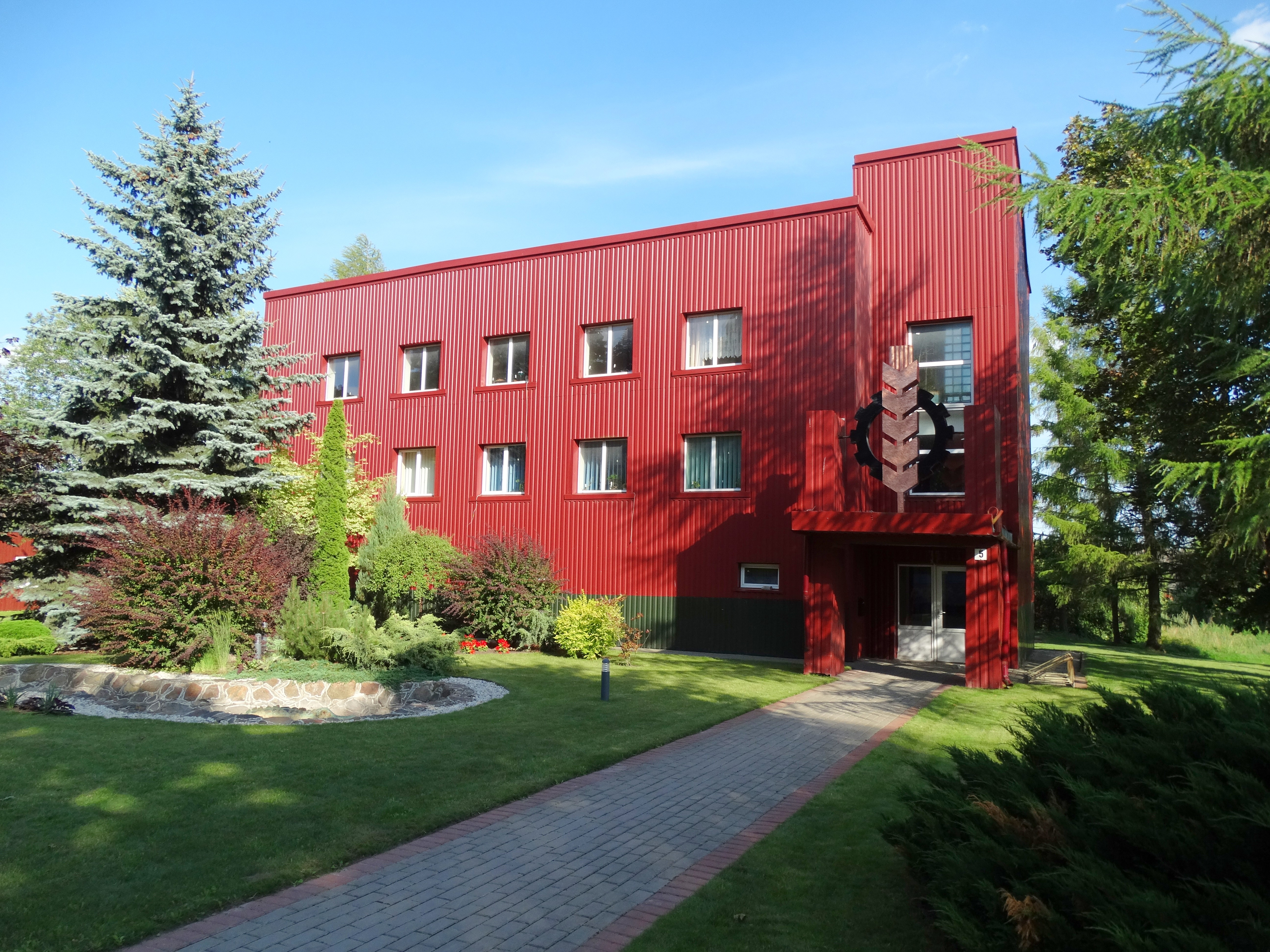 Agricultural company, Lygumai, Pakruojis District, Lithuania